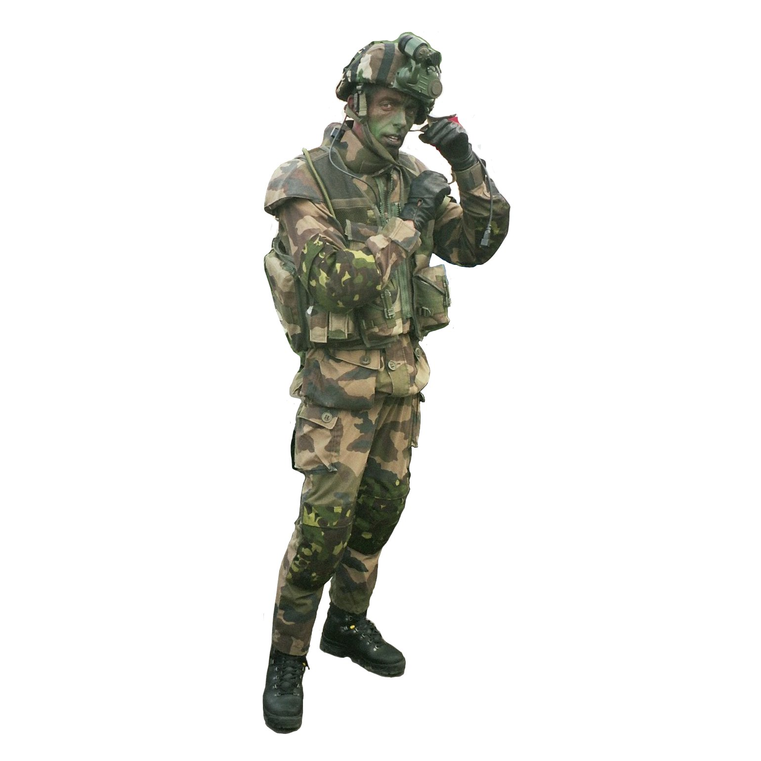 Nation/Defense days, Esplanade des Invalides, Paris, France, September 24-25, 2005: soldier putting his uniform with the FELIN integrated combat system